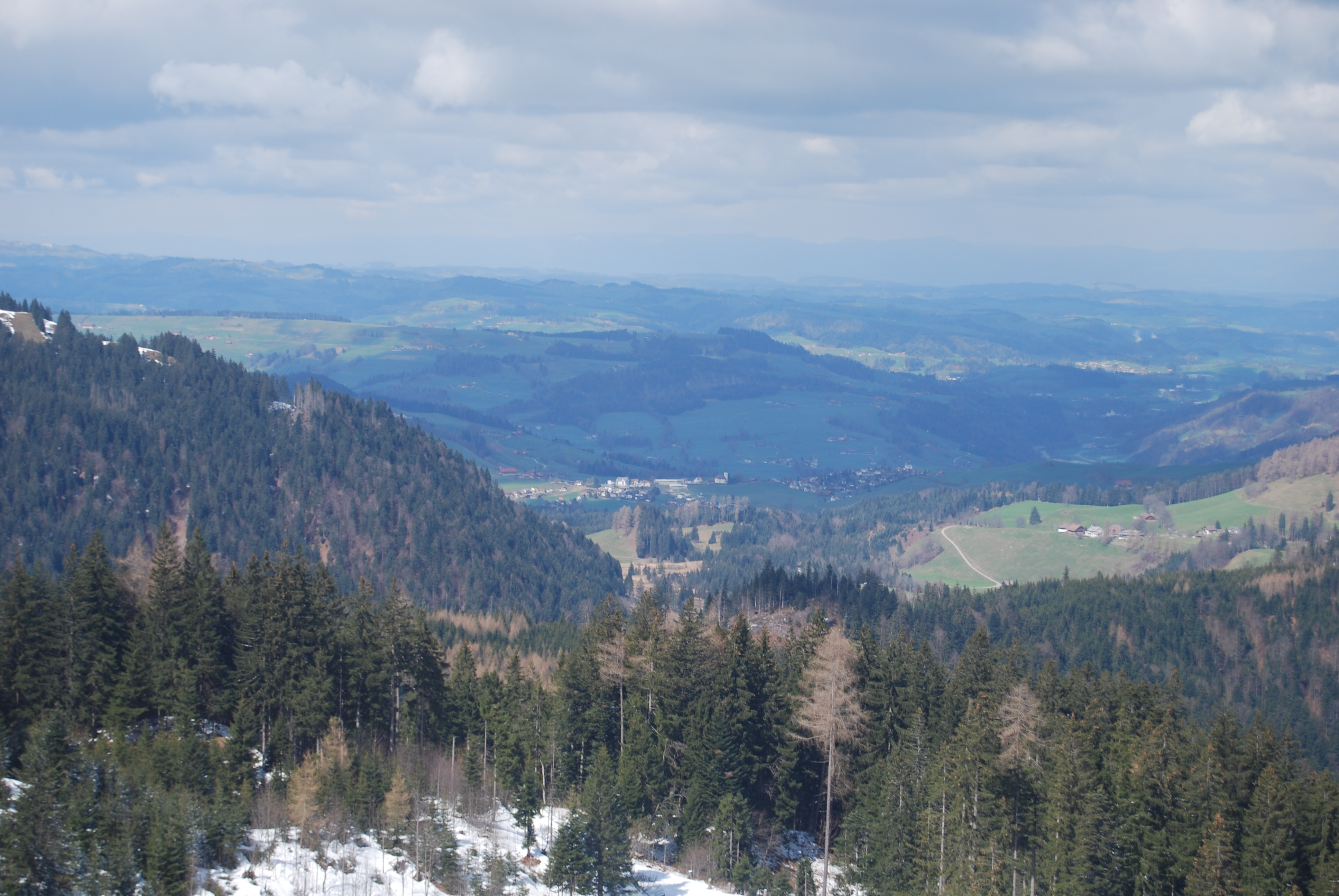 View from the Pilatus cableway to Schwarzenberg, canton of Luzern, Switzerland.